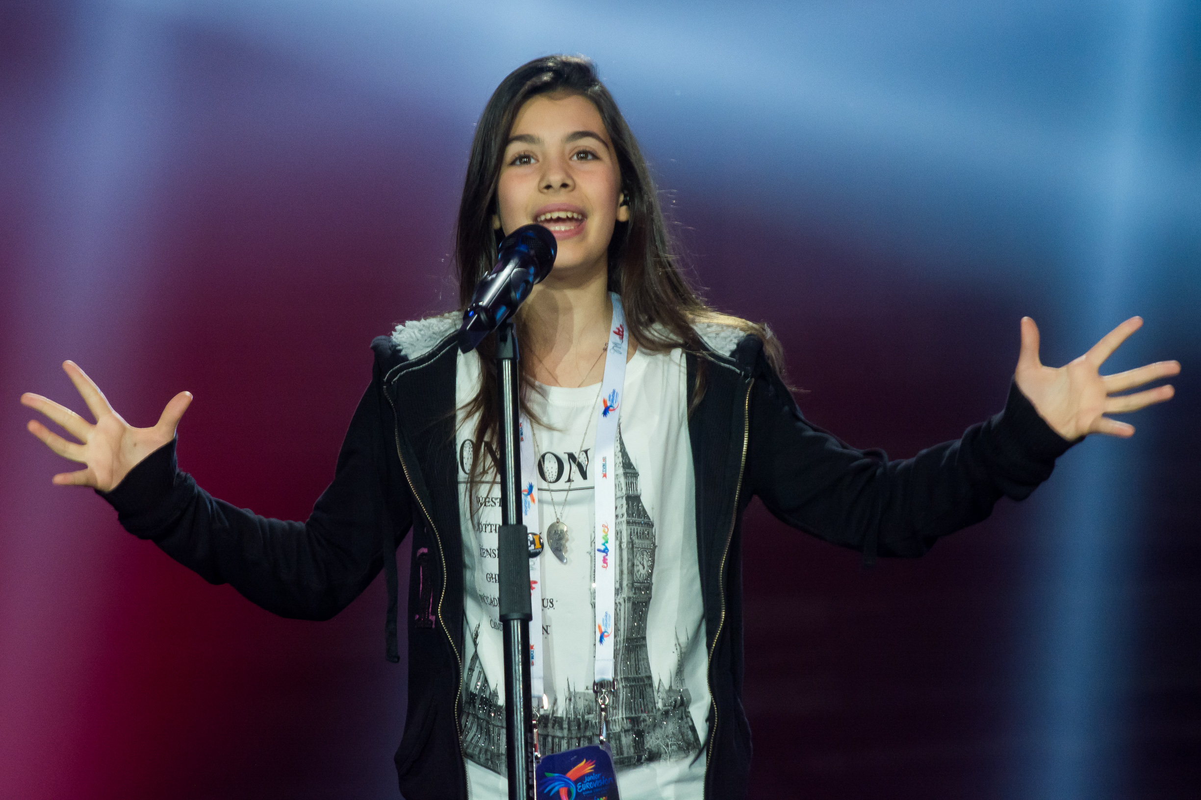 JESC 2016 participant: Fiamma Boccia (Italy)